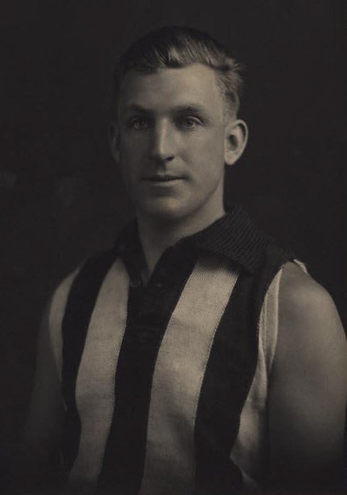 Photo of Albert Lauder taken between 1926 to 1931